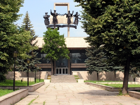 Tula Russian State Academy Drama Theater (Gorky Theater